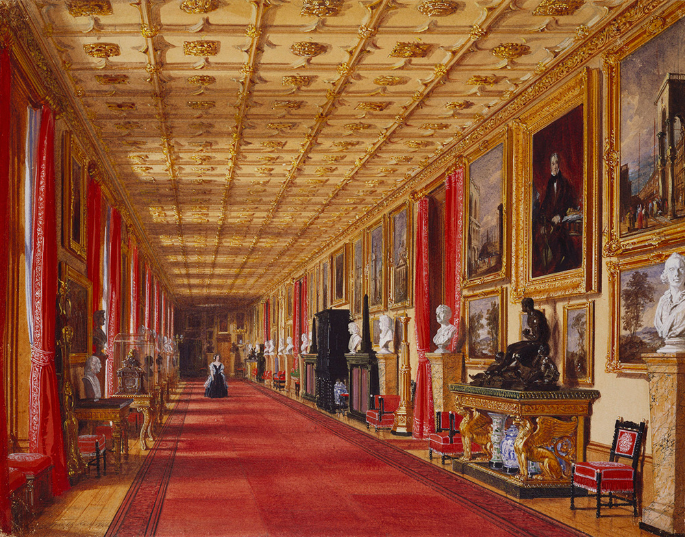 The Grand Corridor, Windsor Castle. Figure in background is sometimes interpreted to be Queen Victoria.